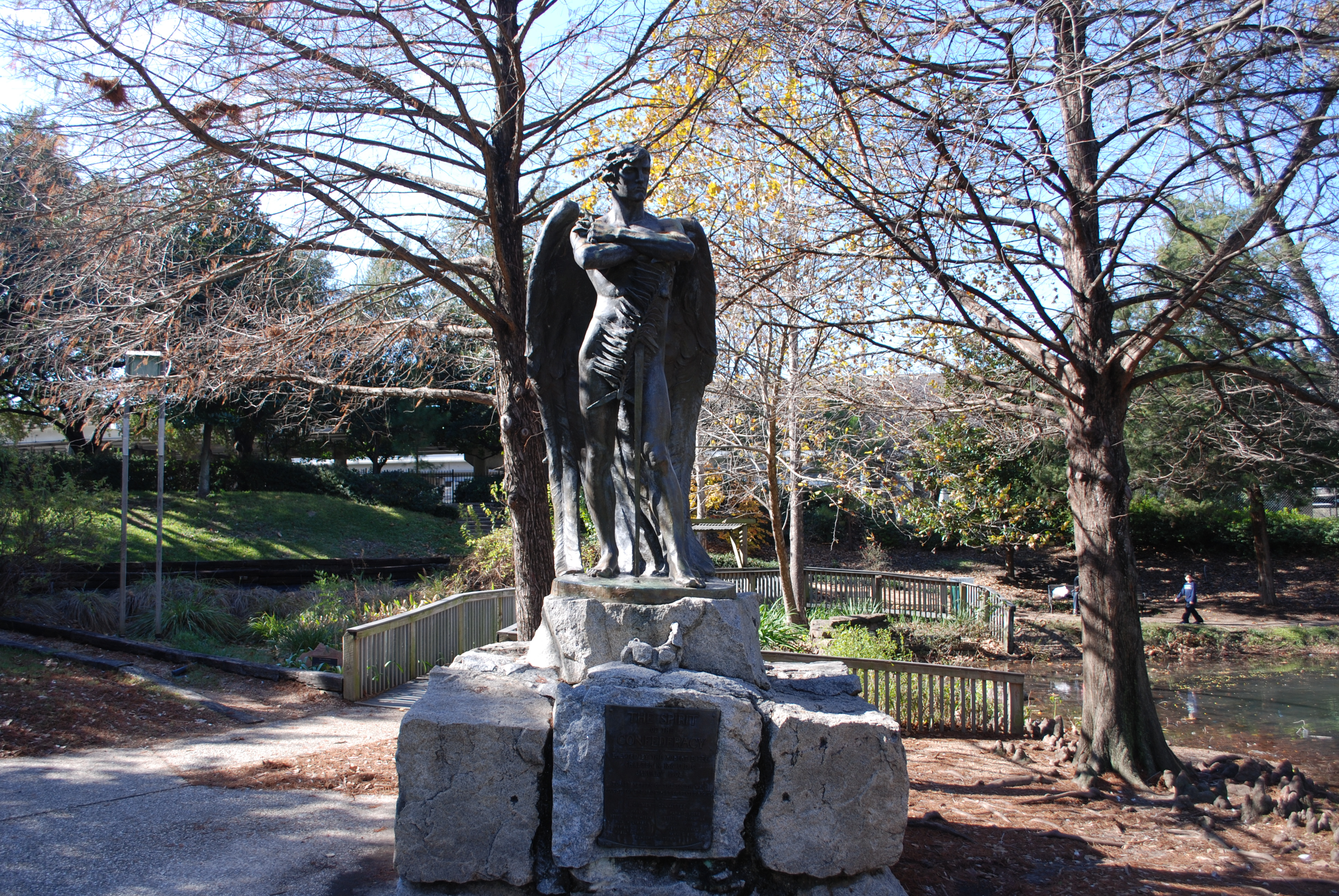 The Spirit of the Confederacy, which is a bronze statue representing an angel with a sword and a palm branch. It was erected in Sam Houston Park by the Robert E. Lee Chapter #186 of the United Daughters of the Confederacy in January 1908. Its dedication states “To all heroes of the South who fought for the Principles of States Rights.” The statue stands on a pedestal of rough-hewn granite. It was designed by Louis Amateis.